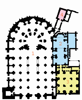 Plan of the cathedral de Granada. 1. Cathedral. 2. Royal chapel. 3. Chapel/museum. 4. Sacristy